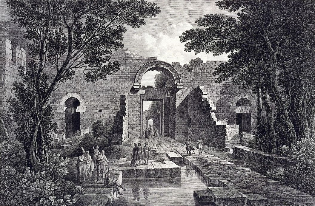 Antioch, Turkey: the Medina gate. Engraving by Le Pagelet and C. Niquet after L.F. Cassas